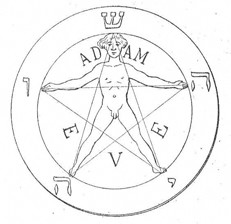 Pentagram with one point up (de Guaita)Includes form of the "Pentagrammaton" (i.e. an incorrect attempt to derive a version of the Hebrew name of Jesus by adding the letter shin ש in the middle of the Tetragrammaton divine name yod-he-waw-he יהוה).